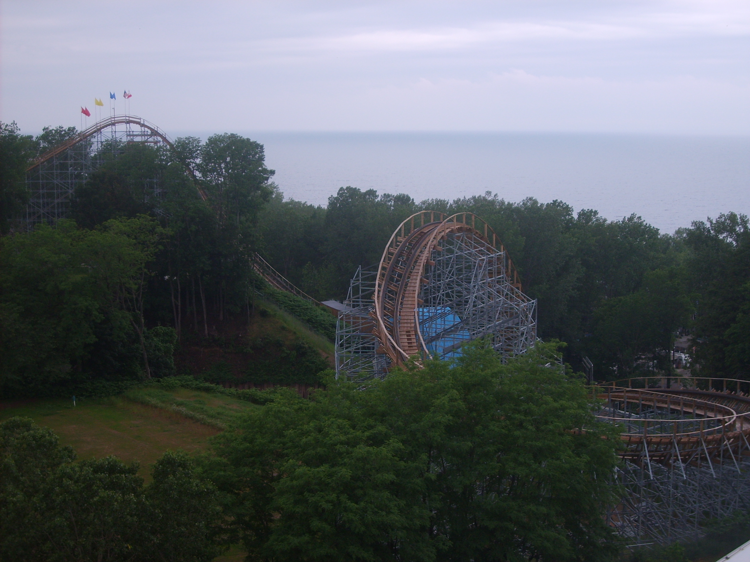 Taken, from the Tom Ridge Enviormental Center, on June 14, 2008. This was the very first ride that we went on that day. Luckily, the weather turned sunny in the afternoon!!